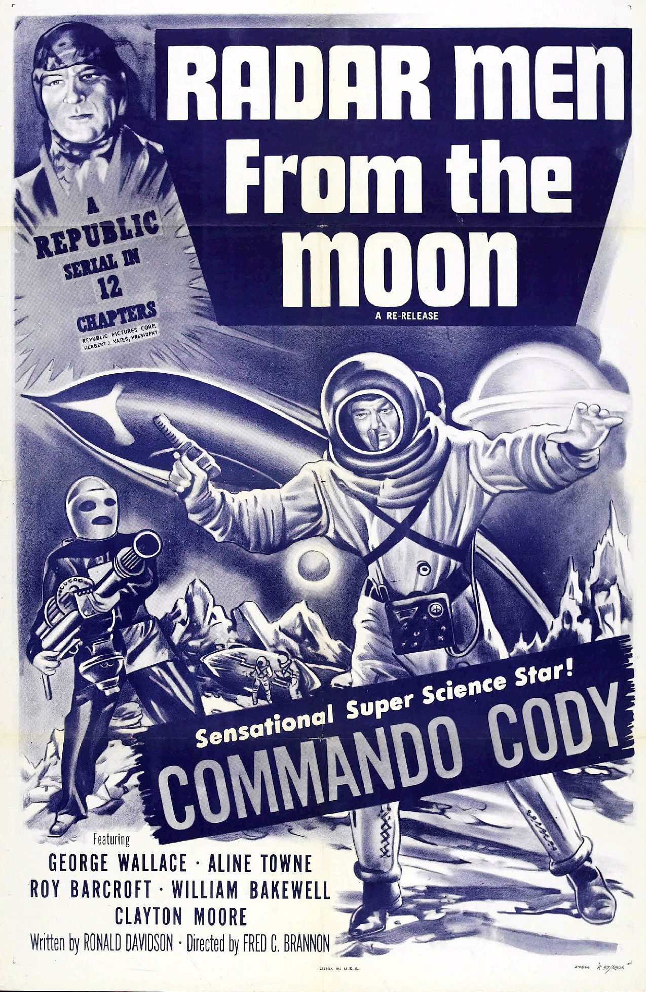 Original movie poster for the Republic Pictures serial Radar Men from the Moon (1952).